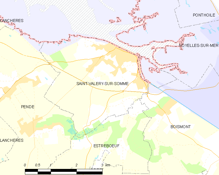 Map of French municipality Saint-Valery-sur-Somme